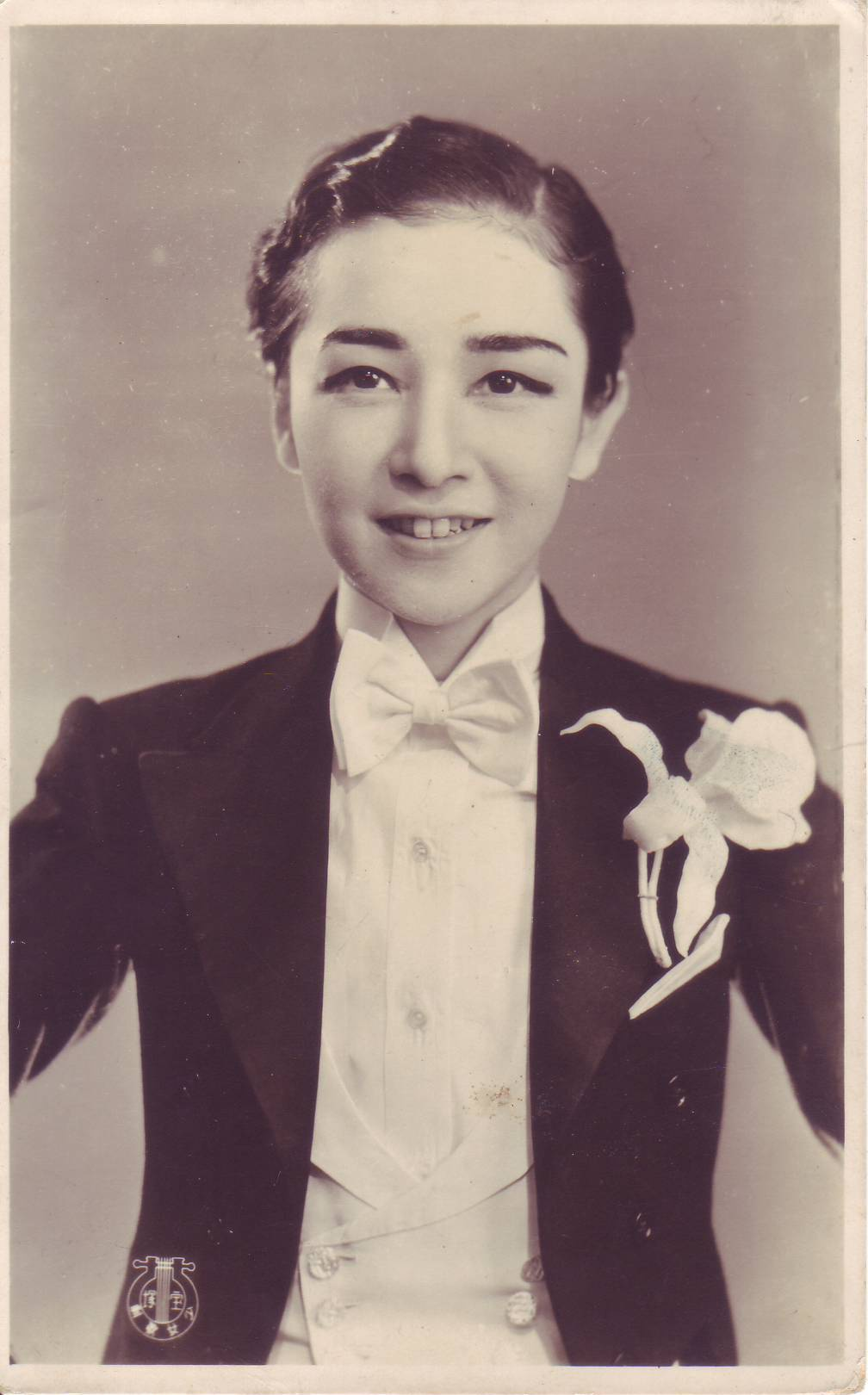 Bromide of Fukuko Sayo (Takarazuka Revue). Pictures released before 1947.